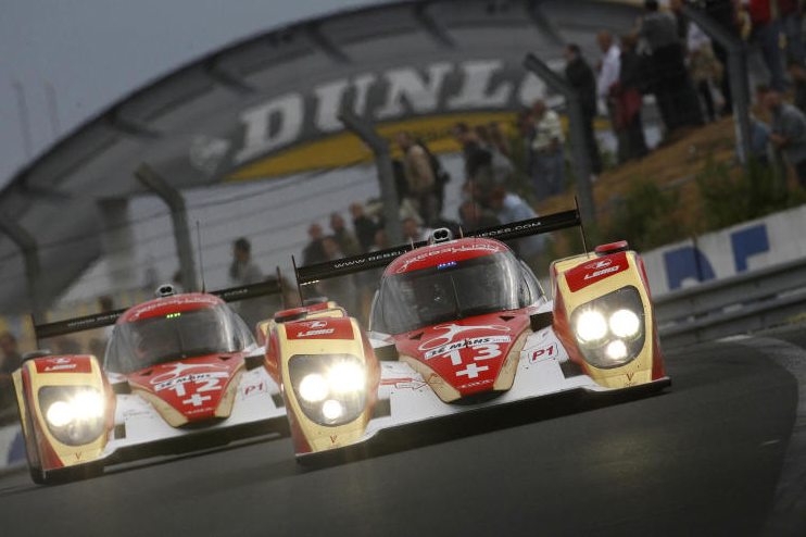 Rebellion Racing at Circuit de la Sarthe